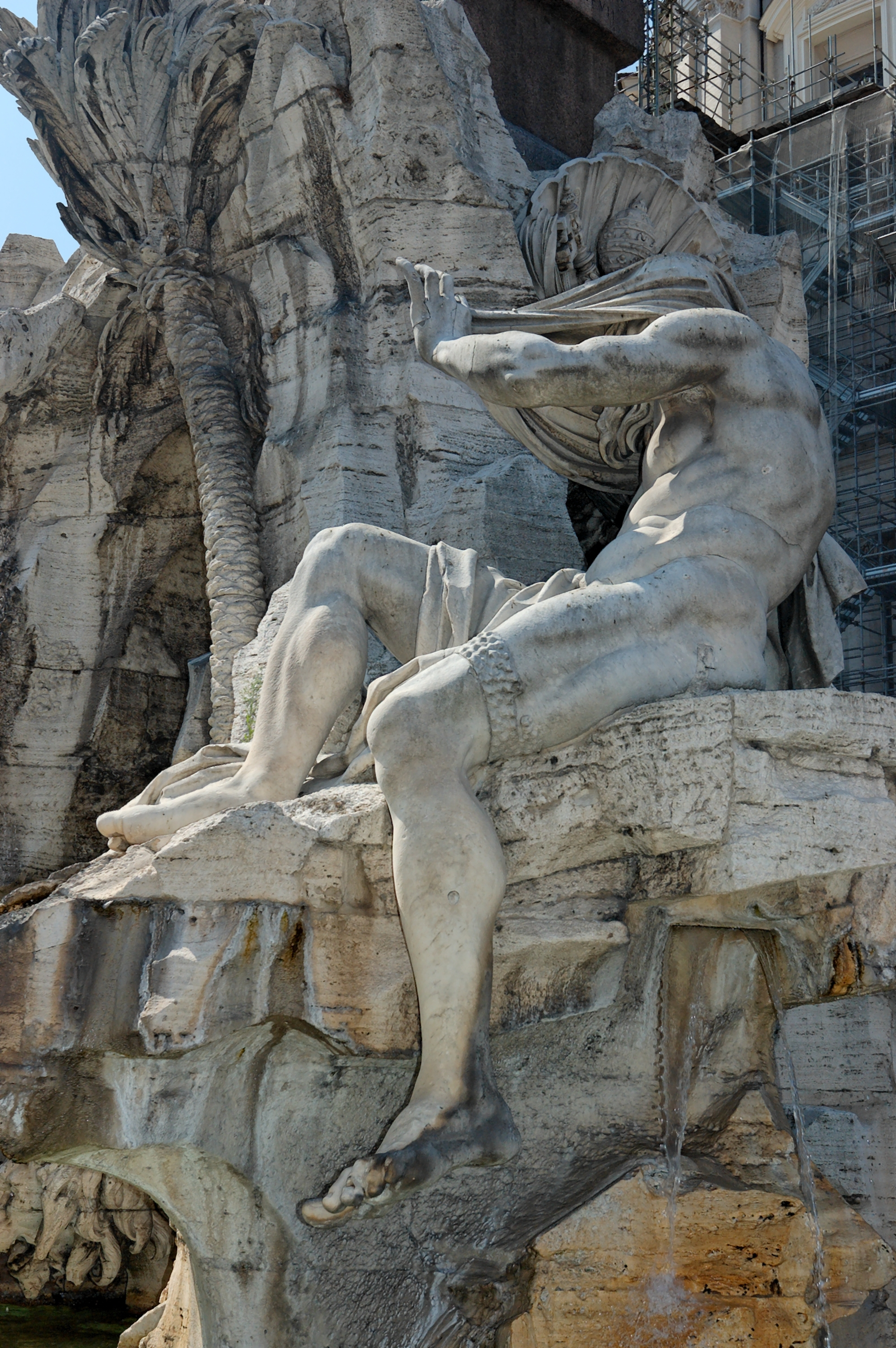 The river-god Nile (who is covering its face as a symbol of the fact that at that time the whereabouts of its springs were unknown) by Gianlorenzo Bernini (1651), from the Fontana dei Quattro Fiumi in Rome. Picture by Jastrow, 2006.